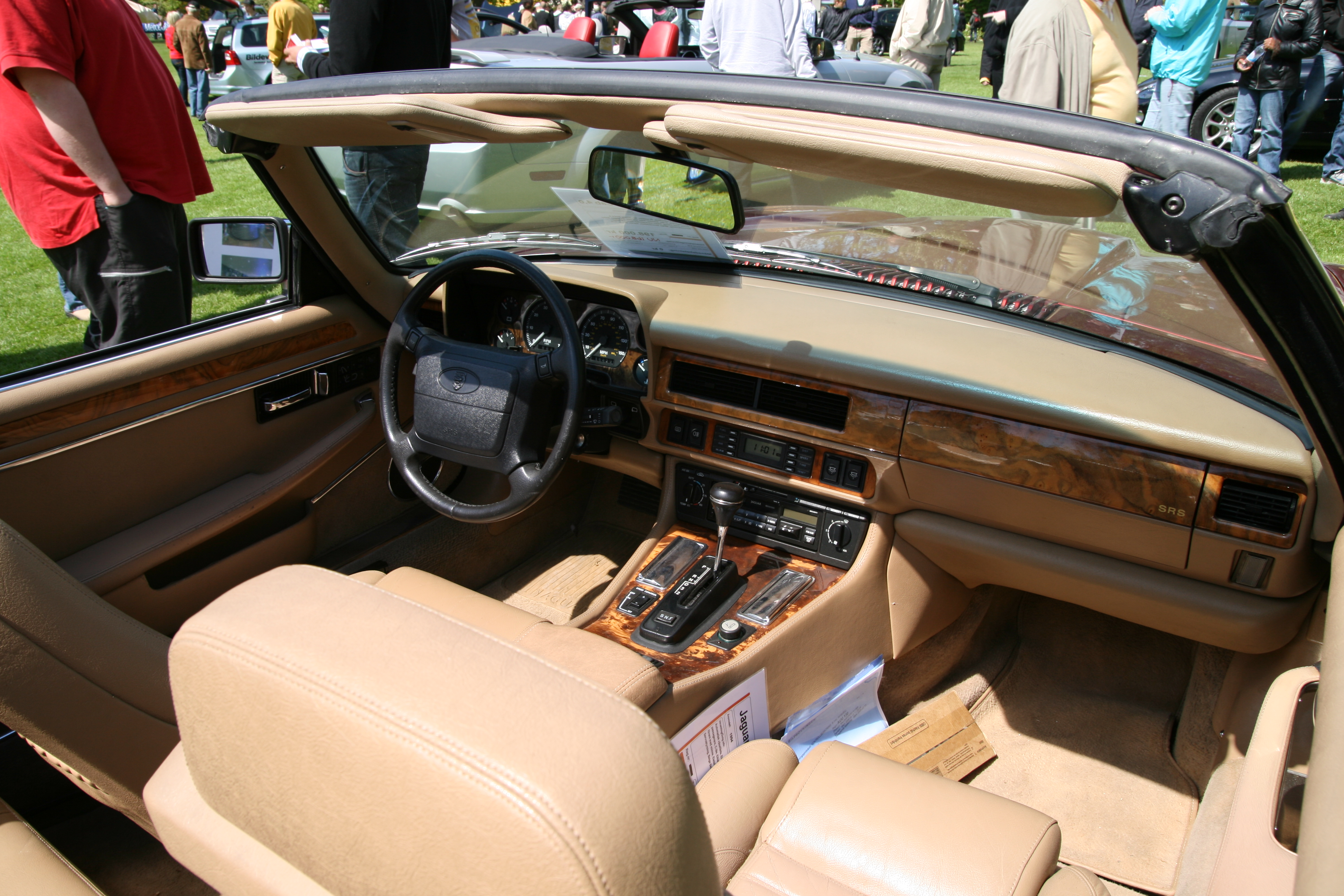 Interior and dashboard of a 1994 Jaguar XJS Convertible parked at the Sofiero Classic car show at Sofiero castle in Helsingborg, Sweden.